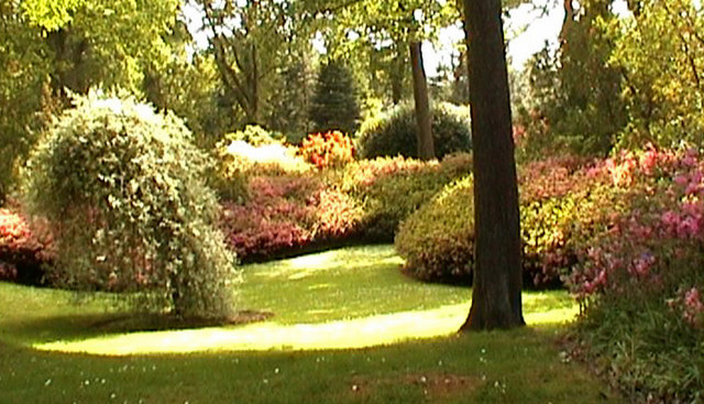 Mount Congreve gardens (supplemental #3)